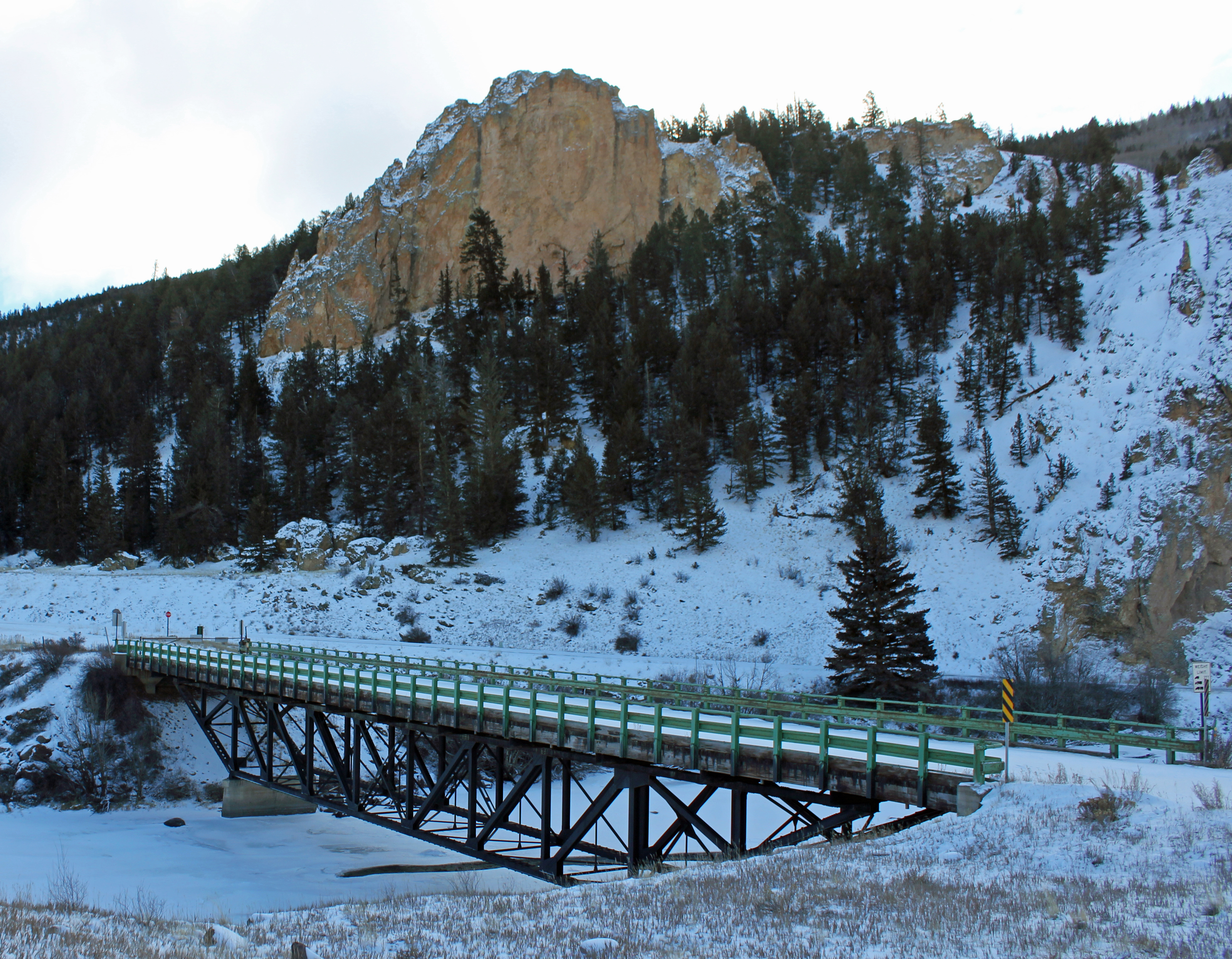 Sevenmile Bridge, located about six miles south of Creede, Colorado, over the Rio Grande. The bridge is a steel, modified Pratt deck truss, and it is listed on the National Register of Historic Places.